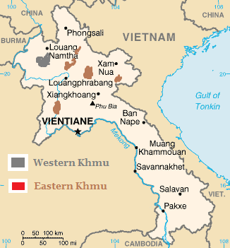 The approximate locations of Kmhmu' language speakers in Laos.